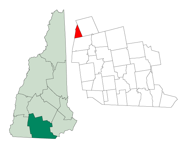 Map of a municipality in Hillsborough County, New Hampshire